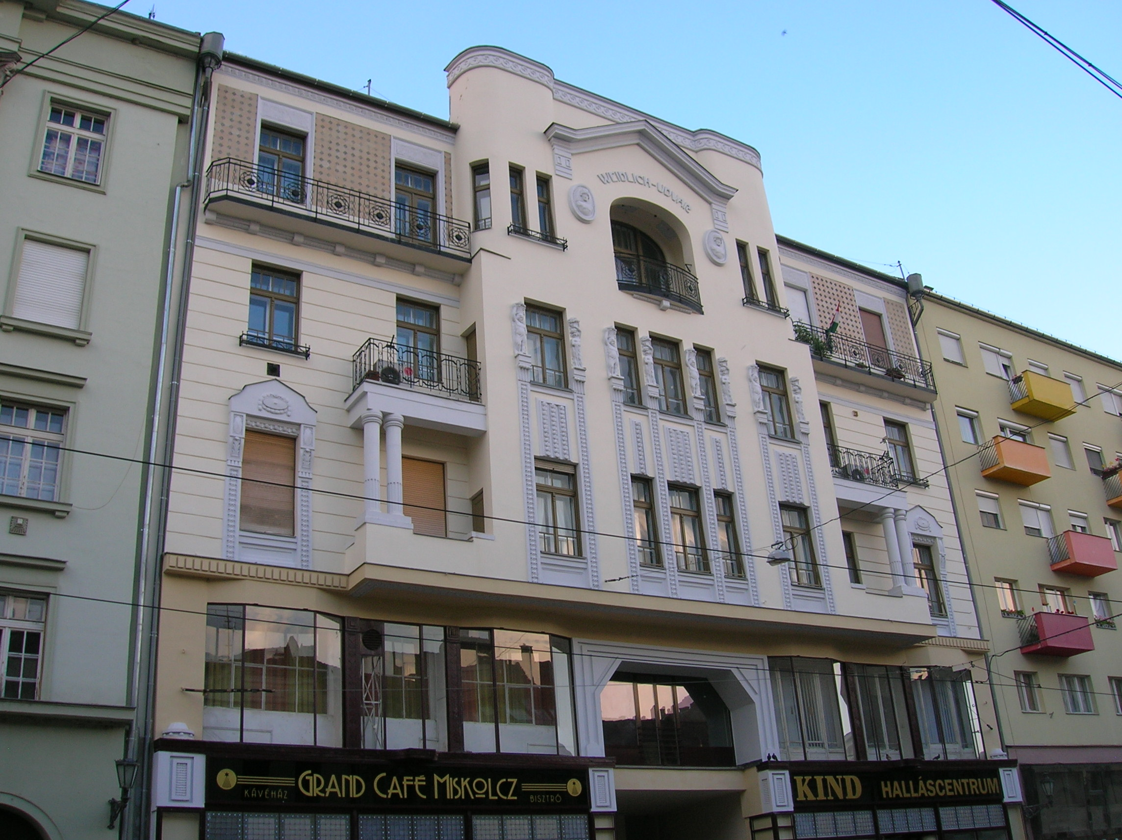 19 Széchenyi Street, Miskolc, Weidlich Palace after renovation, 2012